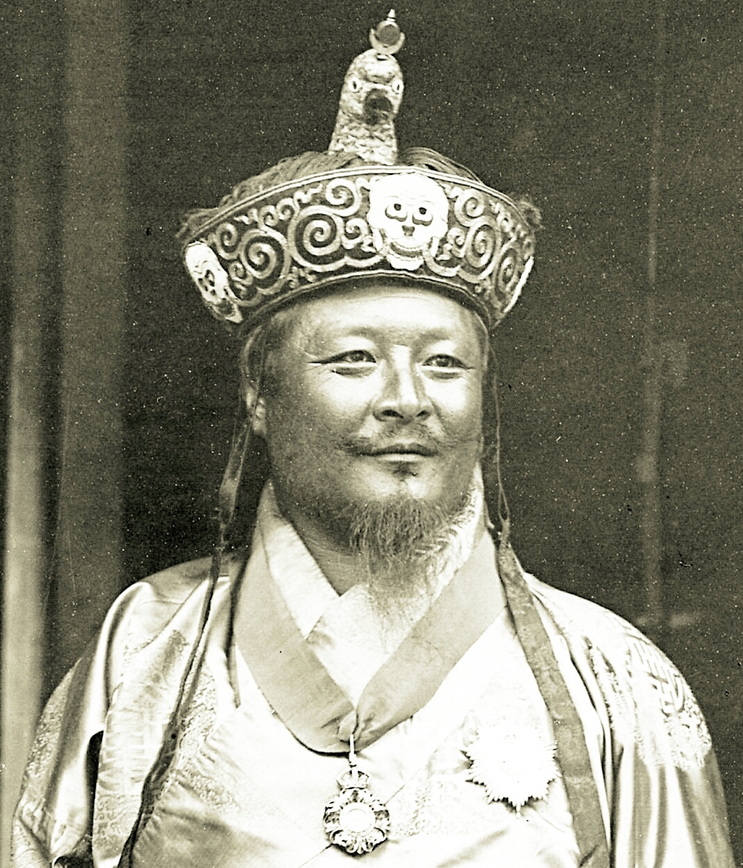 King Ugyen Wangchuck — in Punakha, the old capital of Bhutan, in 1905. Ugyen Wangchuck was the first King of Bhutan, from 1907 to 1926.